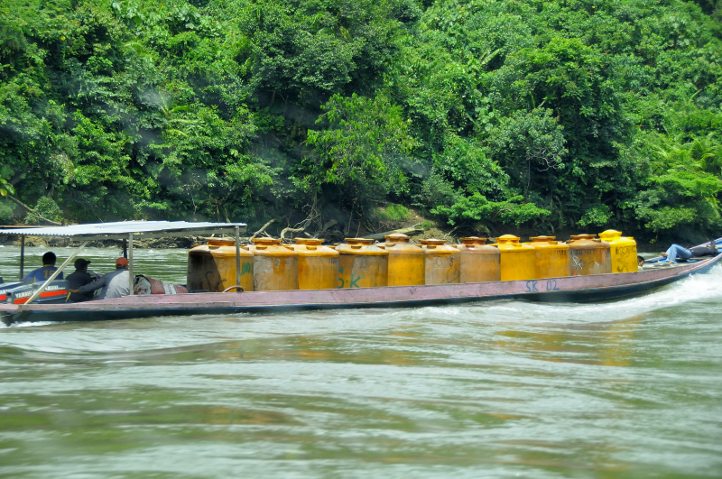 People transporting gasoline by boat on Bahau River, Kayan Mentarang National Park, East Kalimantan